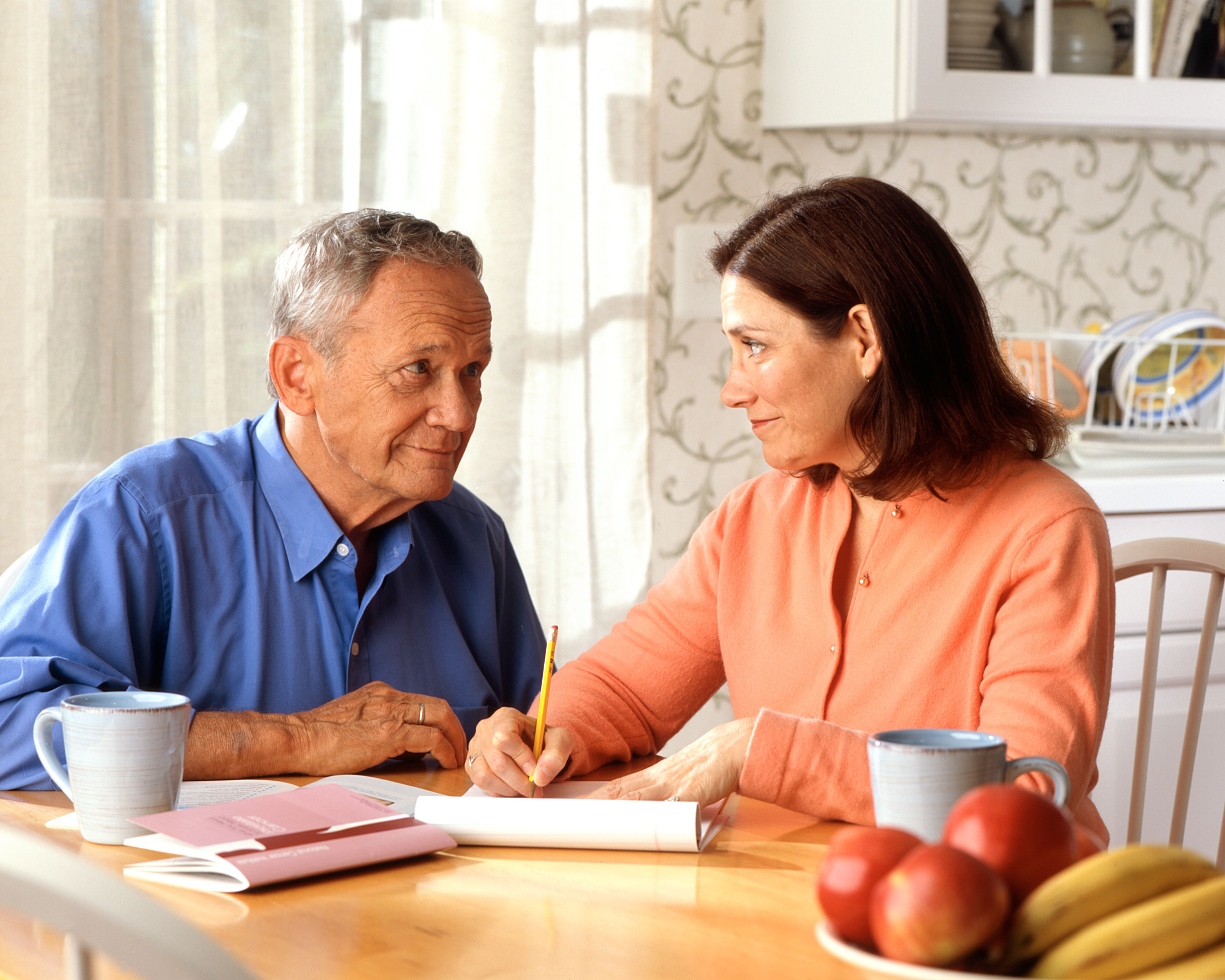 Title Couple Sitting at a Table Description A Caucasian woman and an older Caucasian man are sitting at a table. Topics/Categories People -- Adult Type Color, Photo Source National Cancer Institute